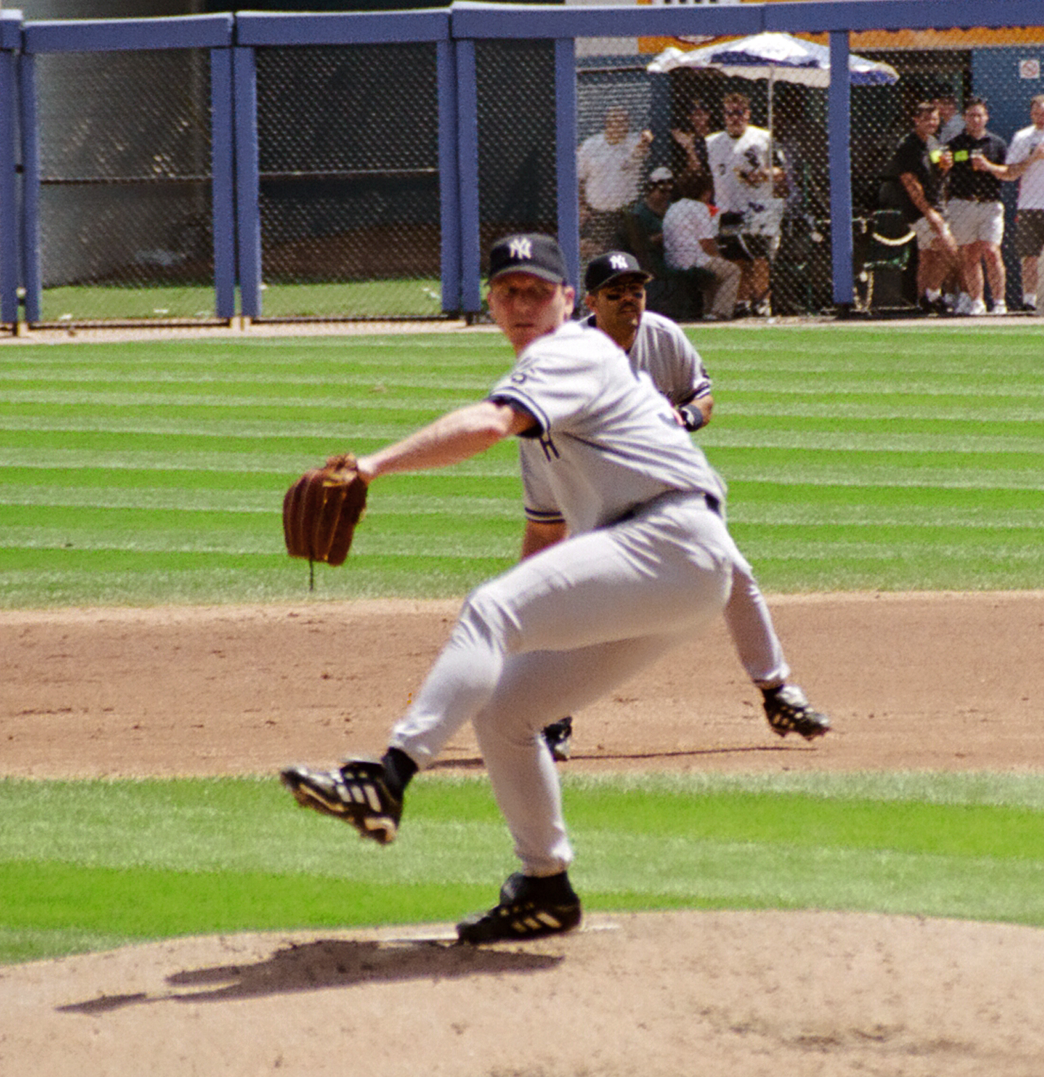 David Cone pitches at New Comiskey Park, 1999.